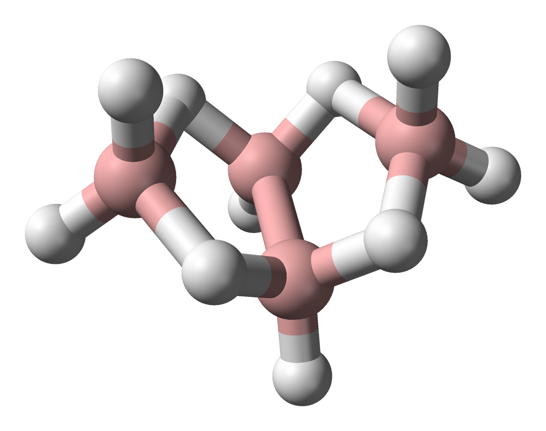 Space-filling model of the unit cell of cyclopentadienylindium(I), C5H5In. Molecular model from , possibly based on electron-diffraction and microwave data from C. John Dain, Anthony J. Downs, Graham S. Laurenson and David W. H. Rankin (1981). "The molecular structure of tetraborane(10) in the gas phase as determined by a joint analysis of electron-diffraction and microwave data". J. Chem. Soc., Dalton Trans.: 472-477. Image generated in Accelrys DS Visualizer.